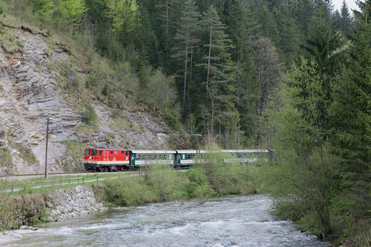 Train of the narrow gauge Ybbstalbahn in Lower Austria, with class 2095 engine between Lunz am See and Kasten